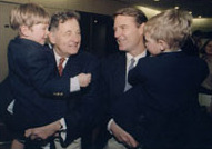 Three generations of the Bayh family